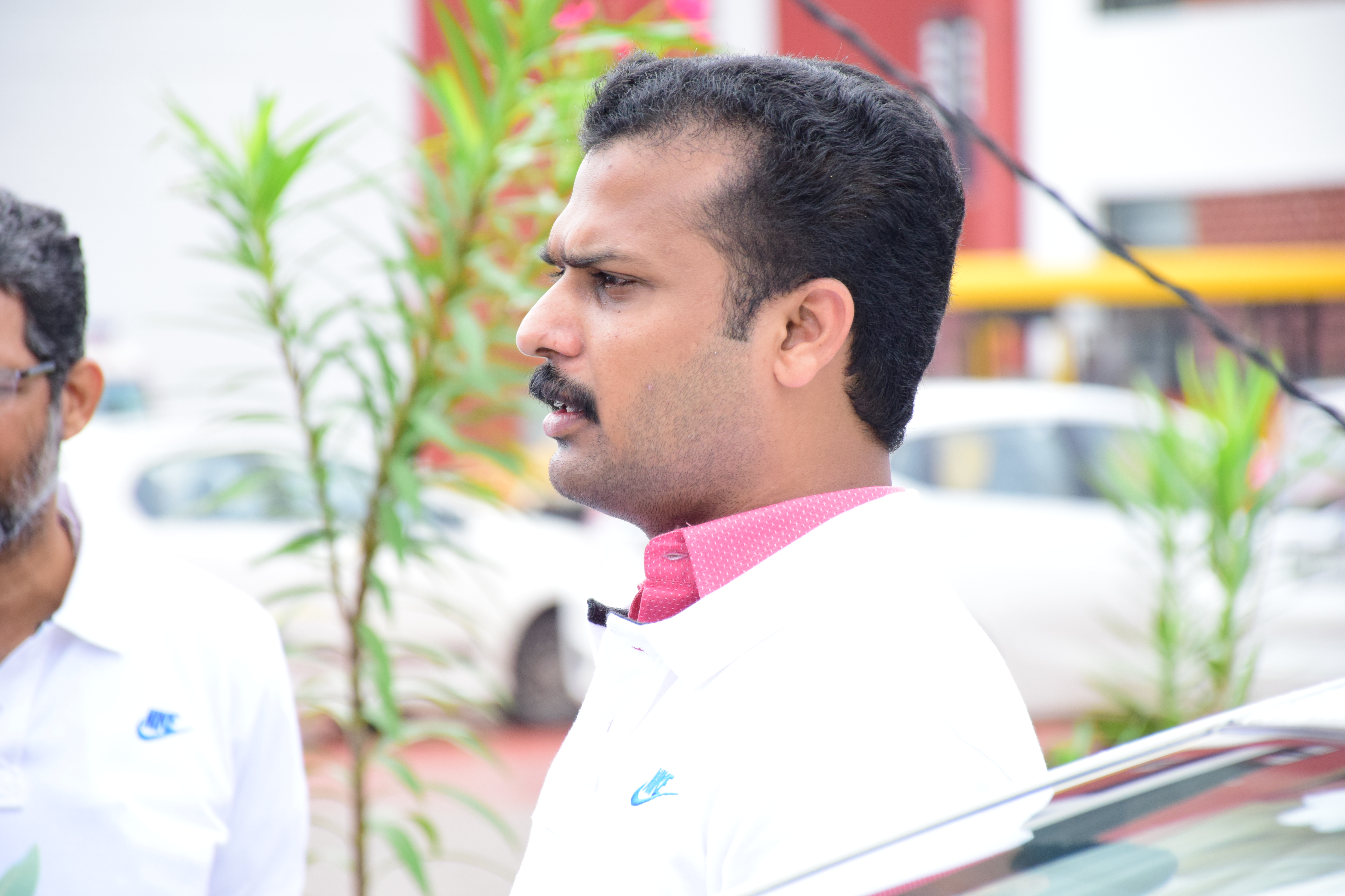 Trivandrum Mayor VK Prasanth speaking on the occasion of Tree 20 Tree planting at The Sports Hub, Greenfield Stadium, Trivandrum as part of the India-New Zealand T20 Match.